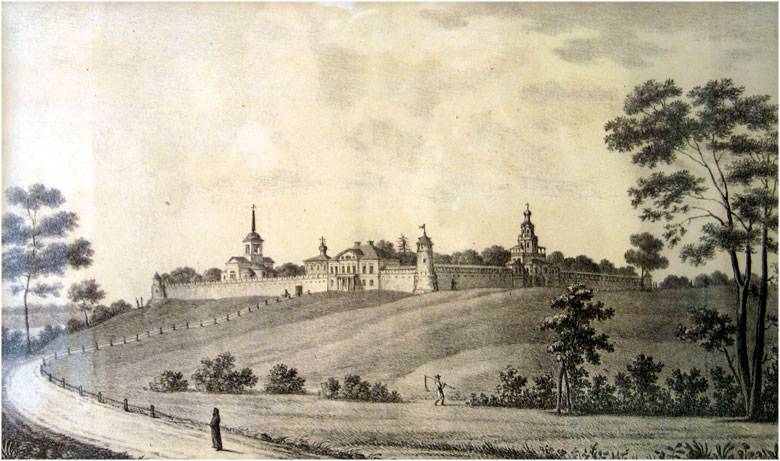 Zilantov monastery in Kazan. Old engraving.